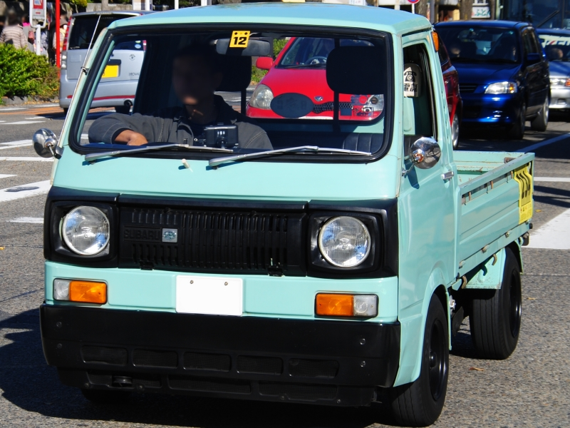 Subaru Sambar